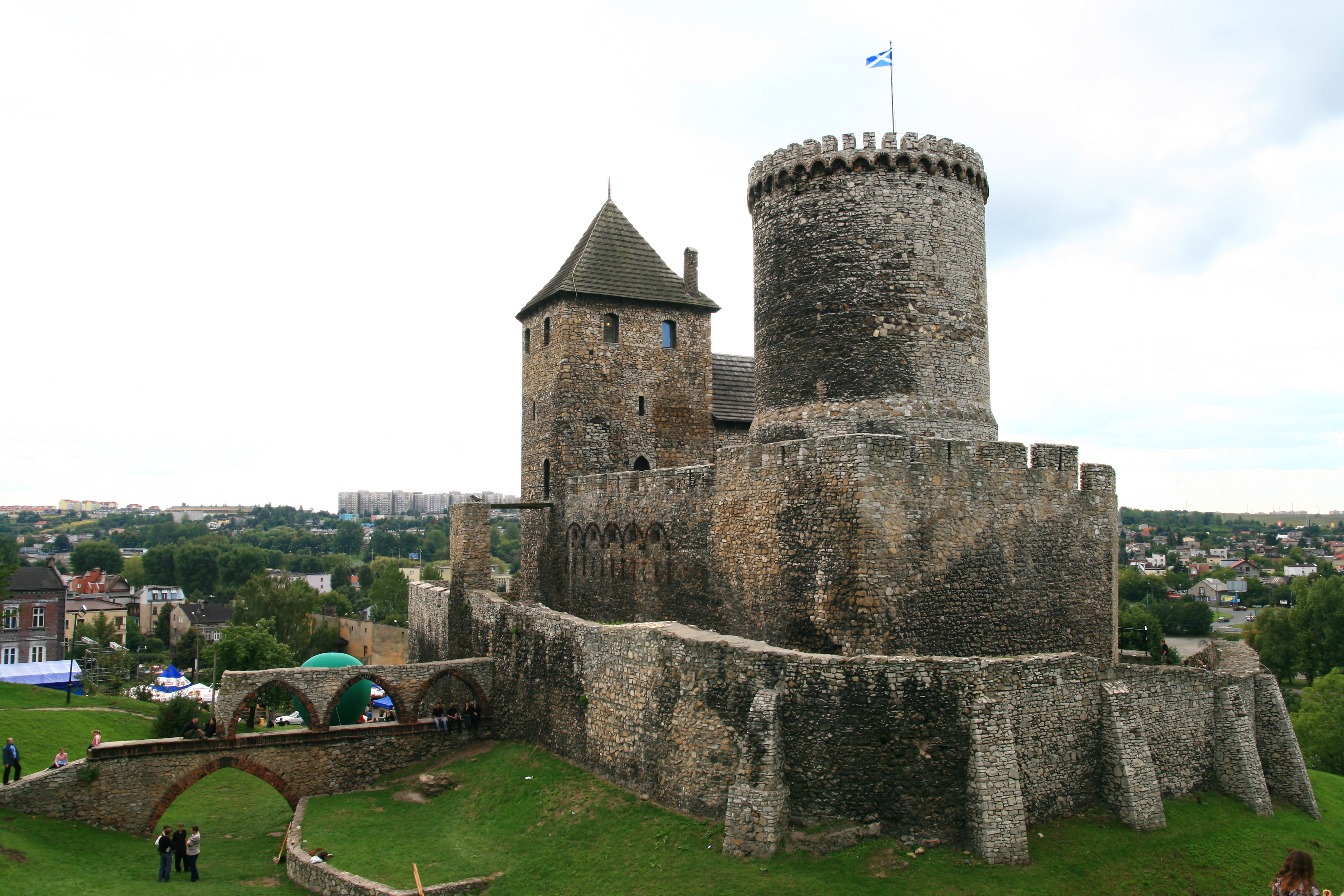 Castle in Będzin.